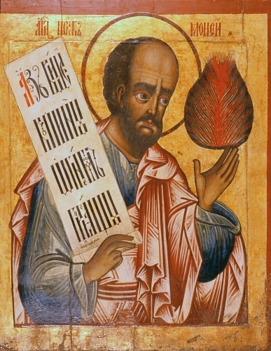 Moses the prophet, Russian icon from first quarter of 18th cen.